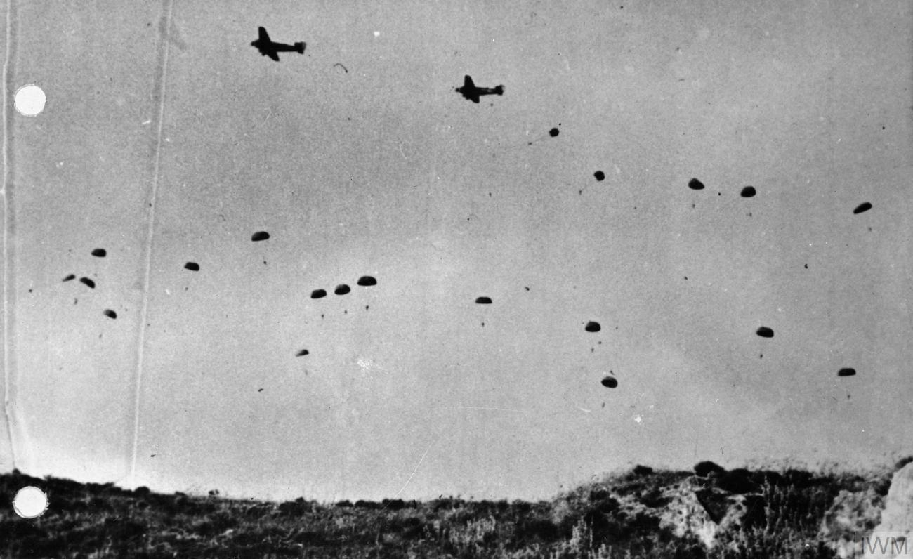 The Battle of Crete, 20 - 31 May 1941. German paratroopers jumping from Junkers Ju 52 3/m transport planes over Crete.